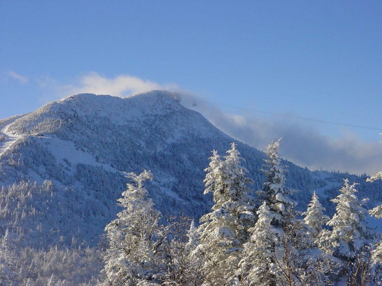 Photographer: HanumanIX